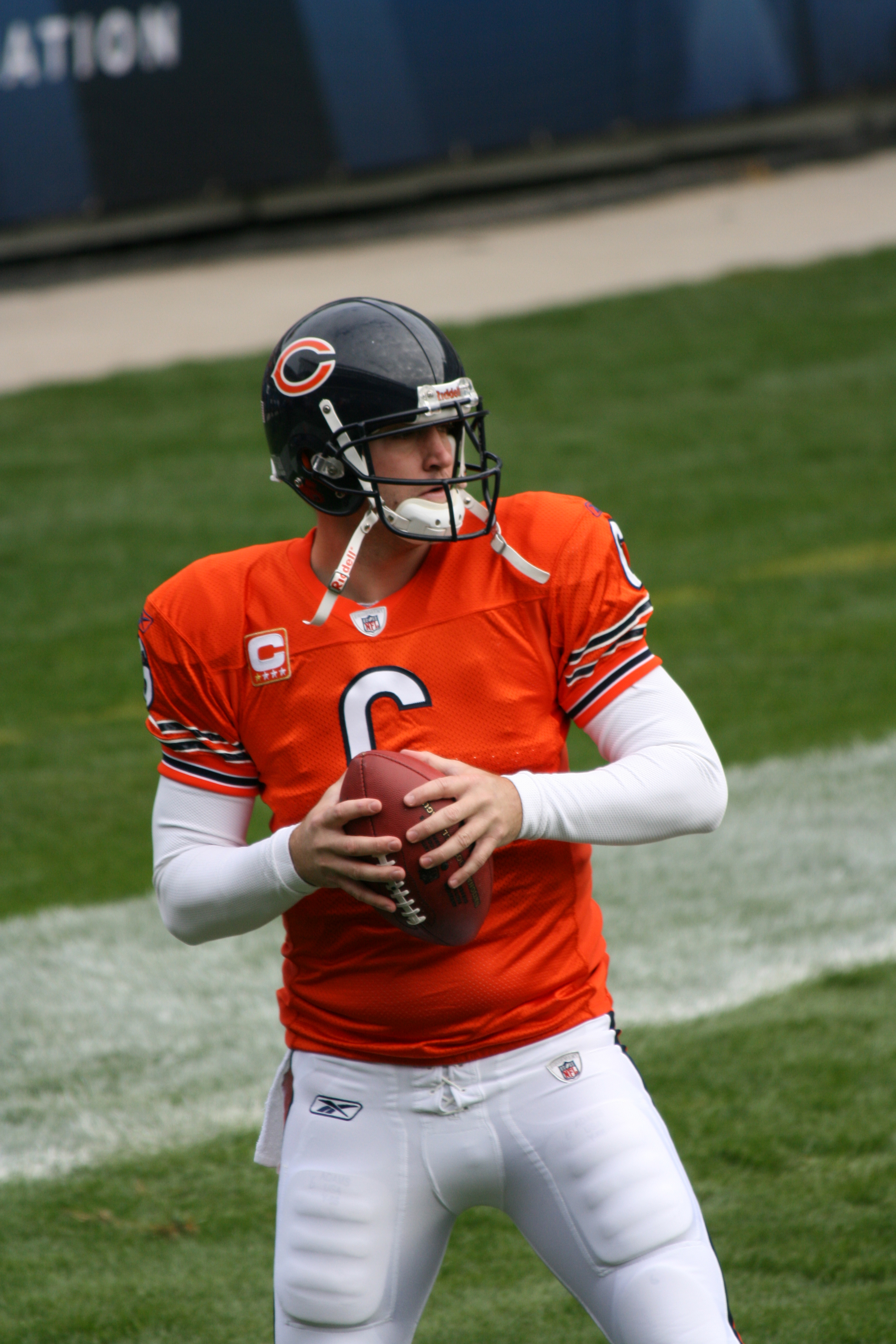 Jay Cutler of the Chicago Bears warming up before a game.